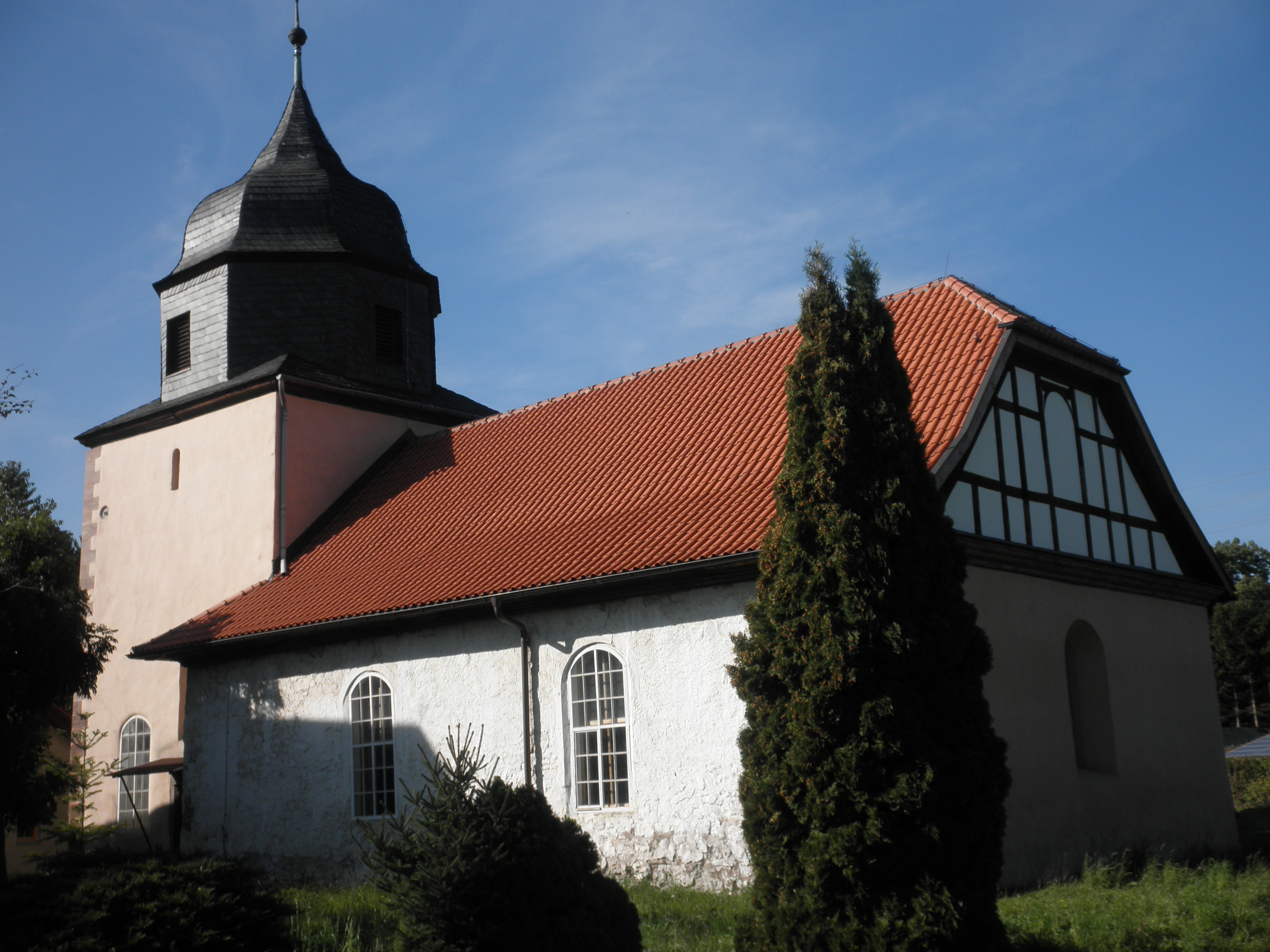 Church in Kleinwechsungen (Werther) in Thuringia